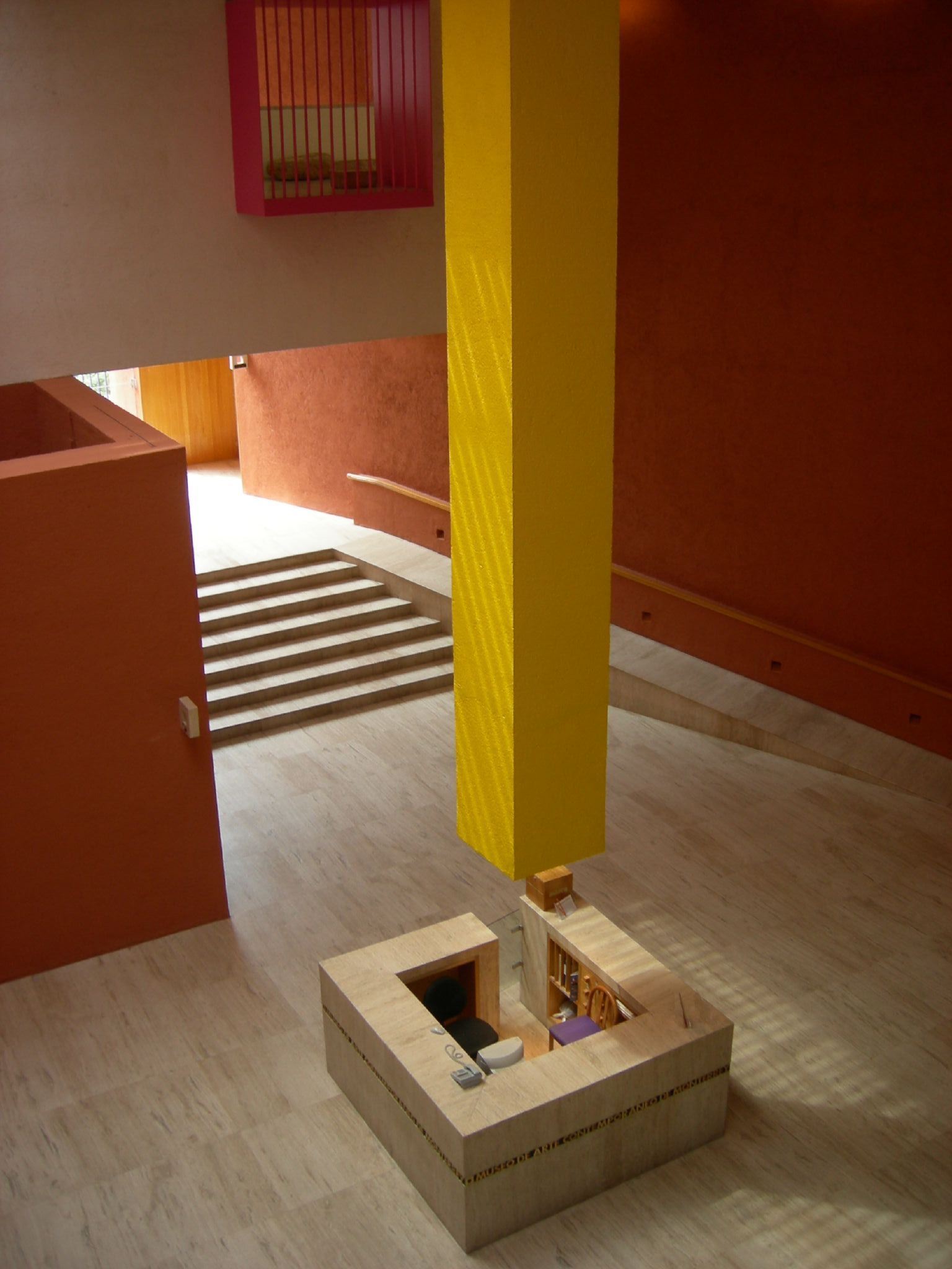 Contemporary Art Museum (MARCO) inside in Monterrey, Mexico.